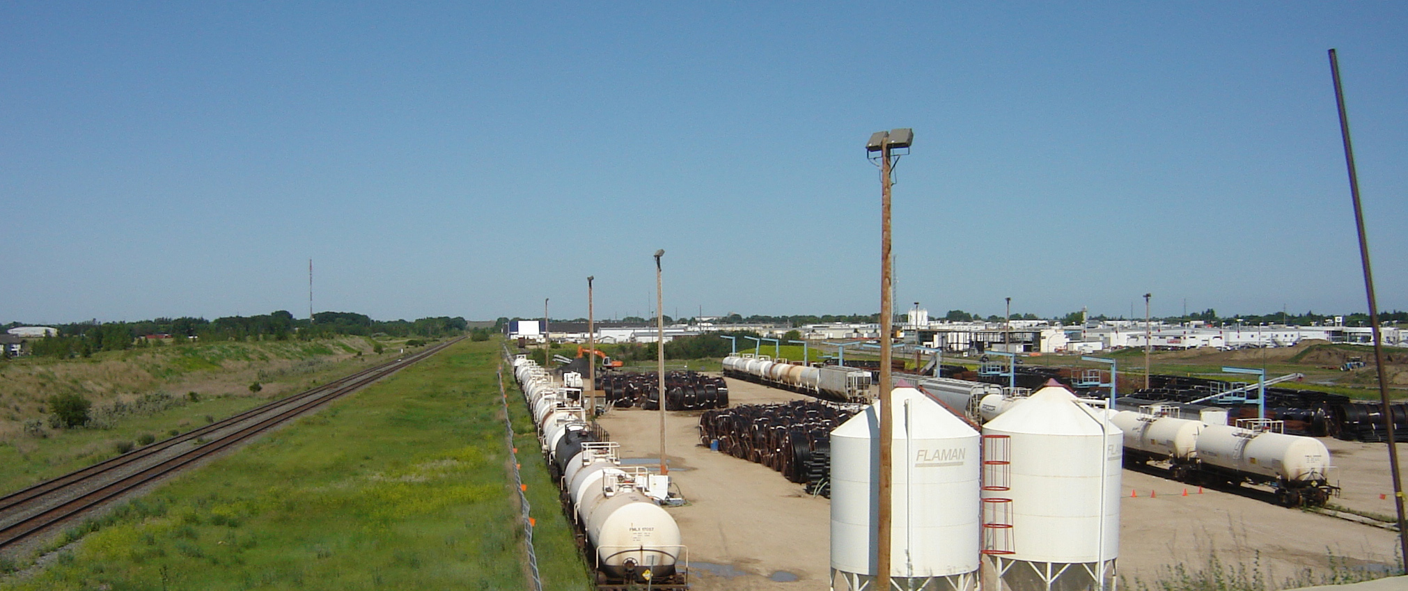 C.N. Industrial, Saskatoon view from the Clarence Avenue overpass of the CN tracks